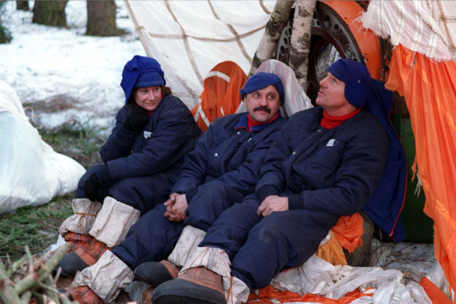 Members of the second crew that will live aboard the International Space Station, from left Susan Helms, a U.S. astronaut, Crew Commander Yuri Usachev from Russia and Jim Voss, also a U.S. astronaut, participate in Soyuz winter survival training in March 1998 near Star City, Russia. The training prepares the crew in the event the Soyuz spacecraft, used as an emergency crew return "lifeboat" for the station, were to land in a location where the crew could not be immediately reached.